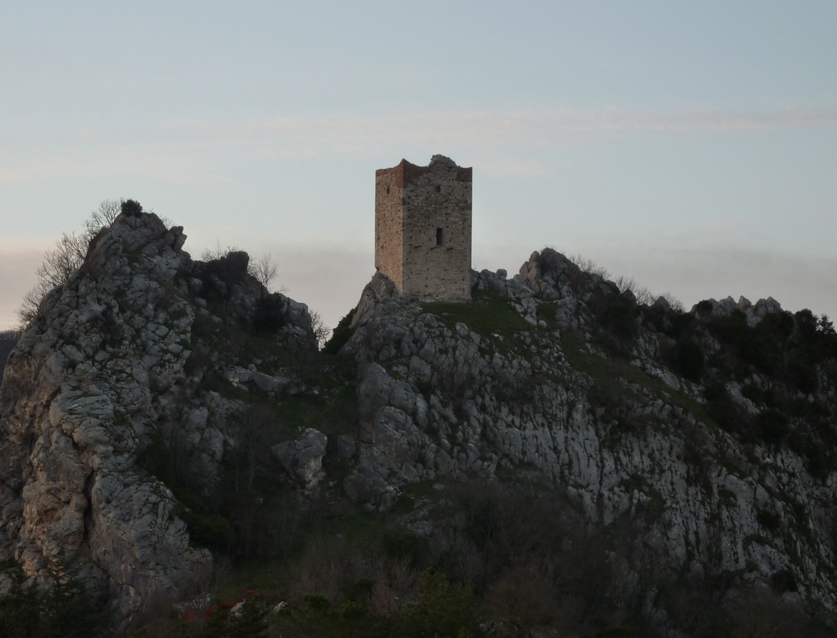 Oratino: Rocca